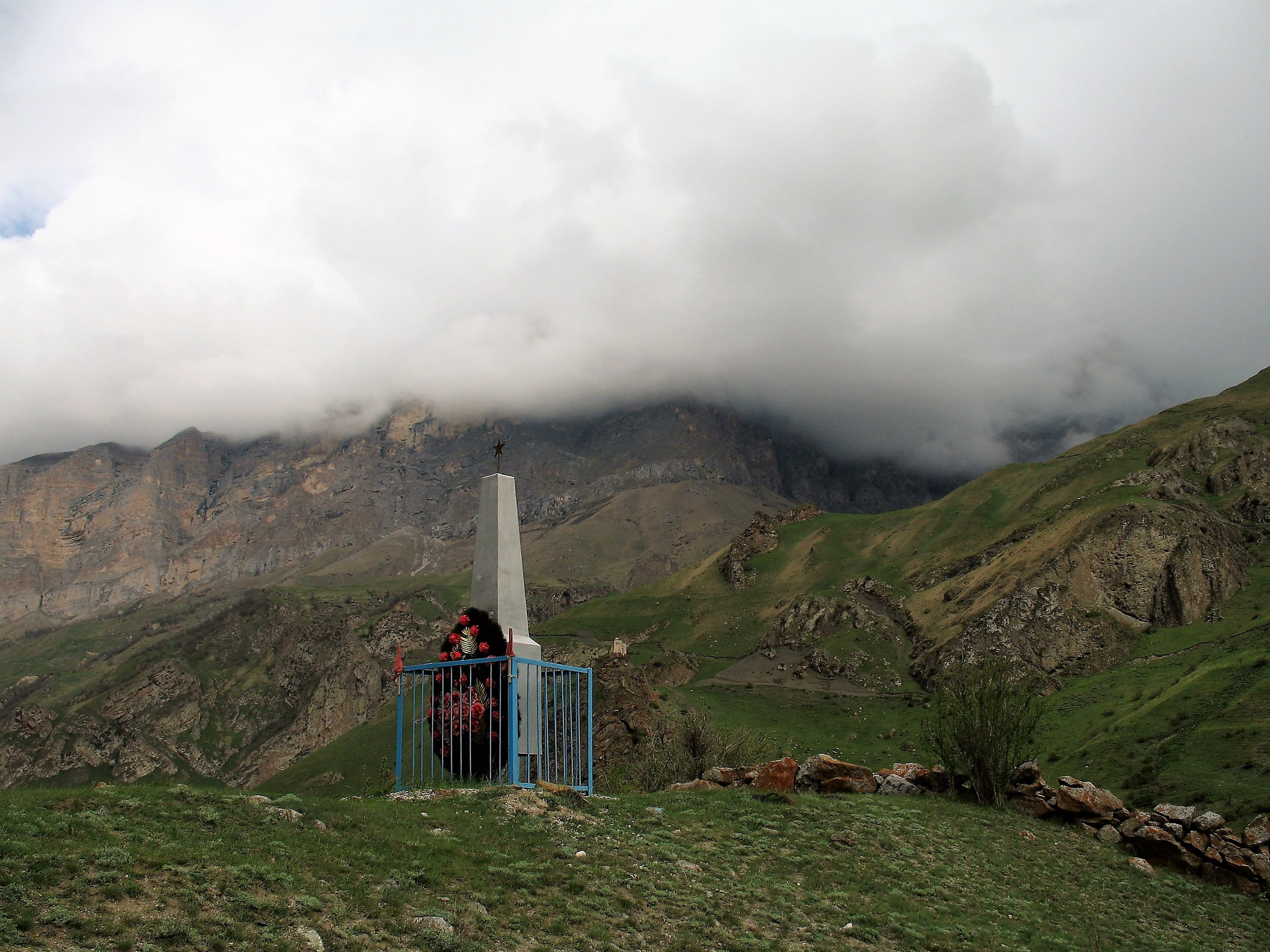 Ruine of Zhabo-Kala Castle near Bezengi